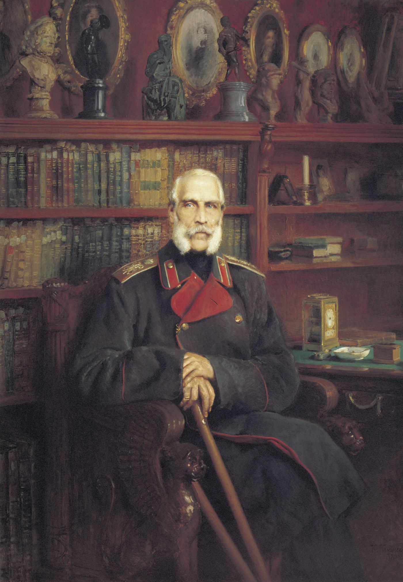 Portrait of count Sergei Grigoriyevich Stroganov by Konstantin Egorovich Makovsky, oil on canvas, 1882. 179x125 sm. State Russian museum, Saint Petersburg.